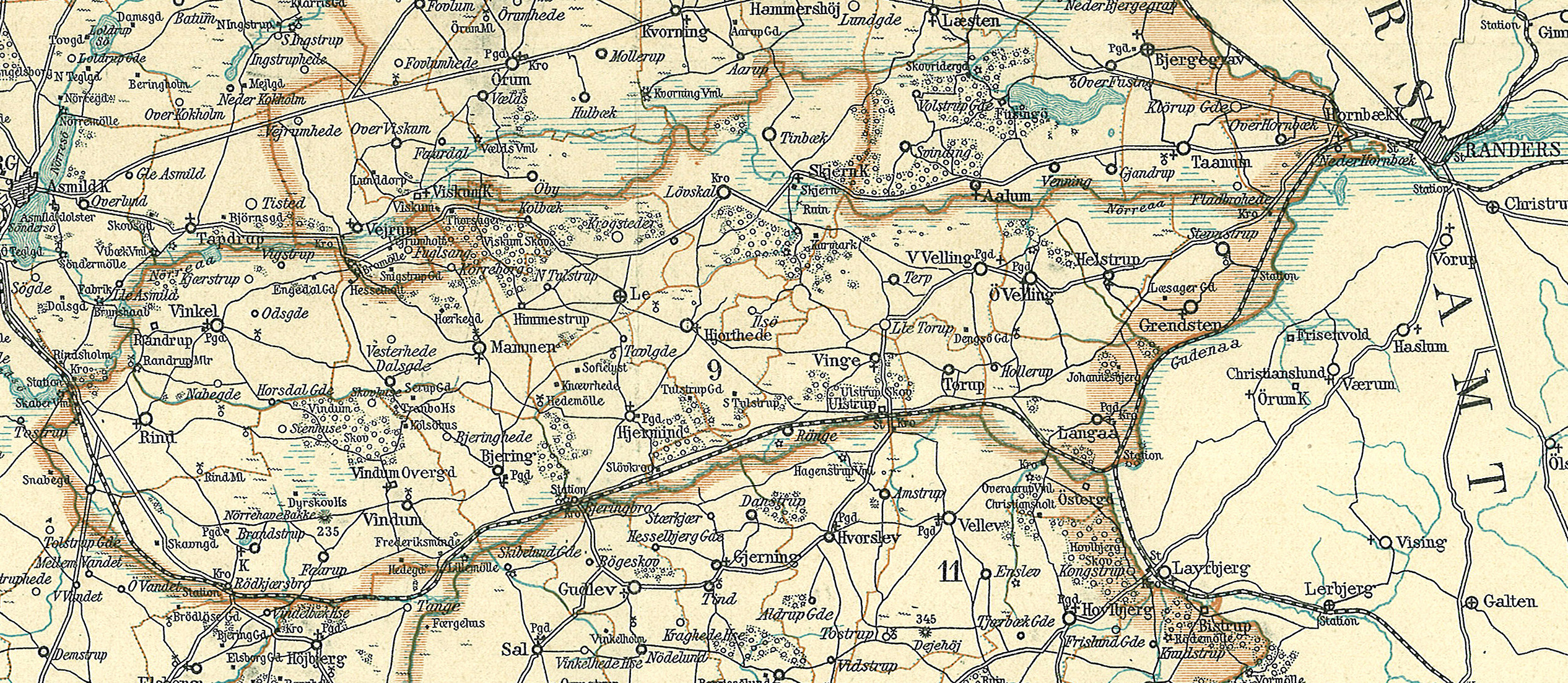 Map of Middelsom Herred in the eastern part of Viborg County in Denmark